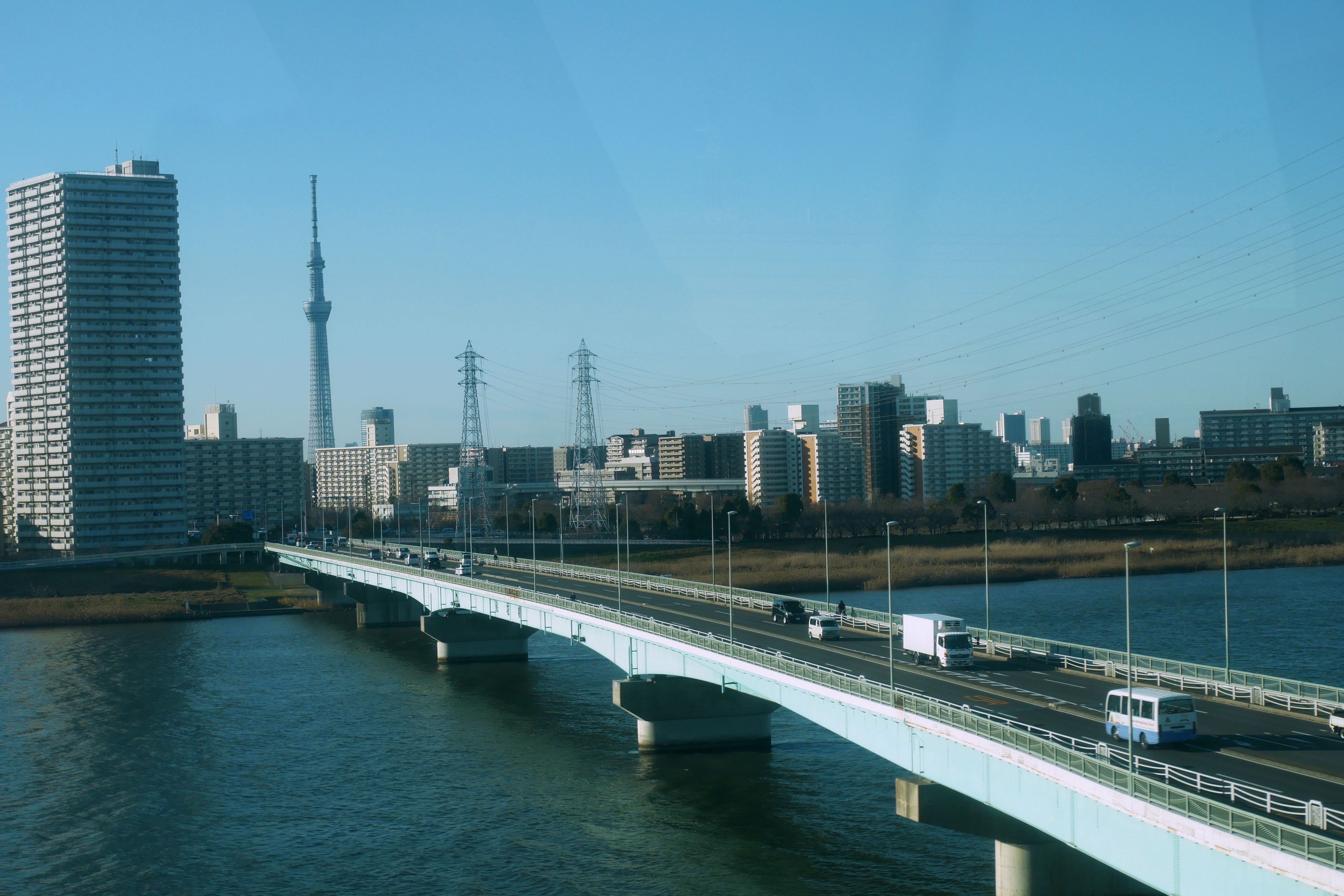 船堀橋 (Funabori Bridge) Panasonic Lumix DMC-GX7 Mark II